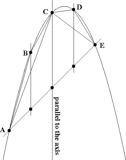 linking to articles on Archimedes' work (original: I will link to this from one or more articles on Archimedes' work, with suitable captions explaining it.)